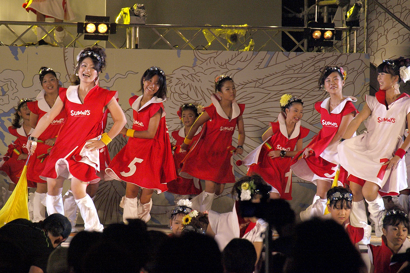 The eve of the Yosakoi Dance Festival at the Kochi Central Park in the Kochi city, Kochi Prefecture, Japan. "SUNNYS" - the 3-9th grade girls dance team.